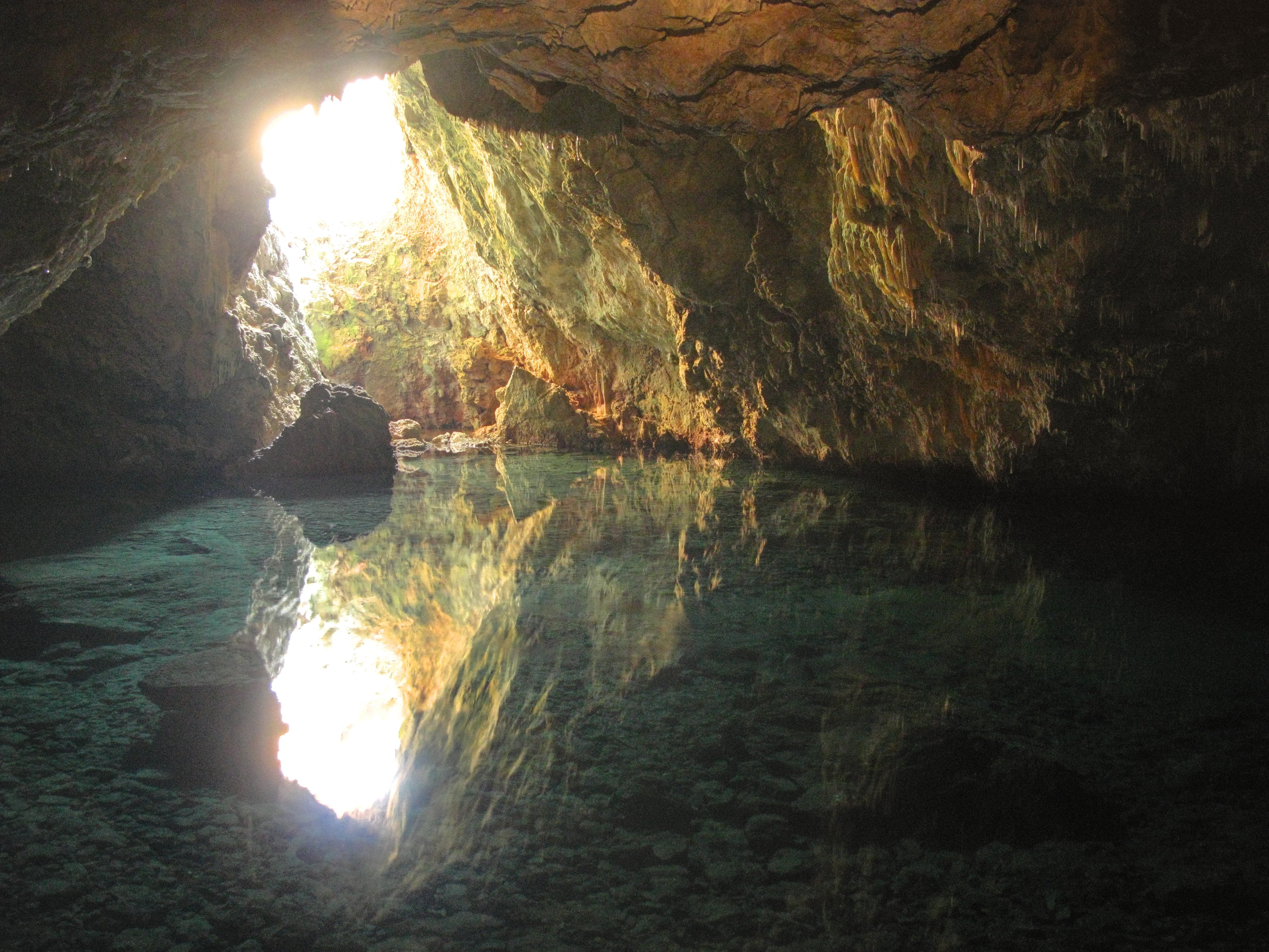 Cave Katafygi Vatsinidi (Kardamyli, Lefktron, Messenia, Peloponnese, Greece)